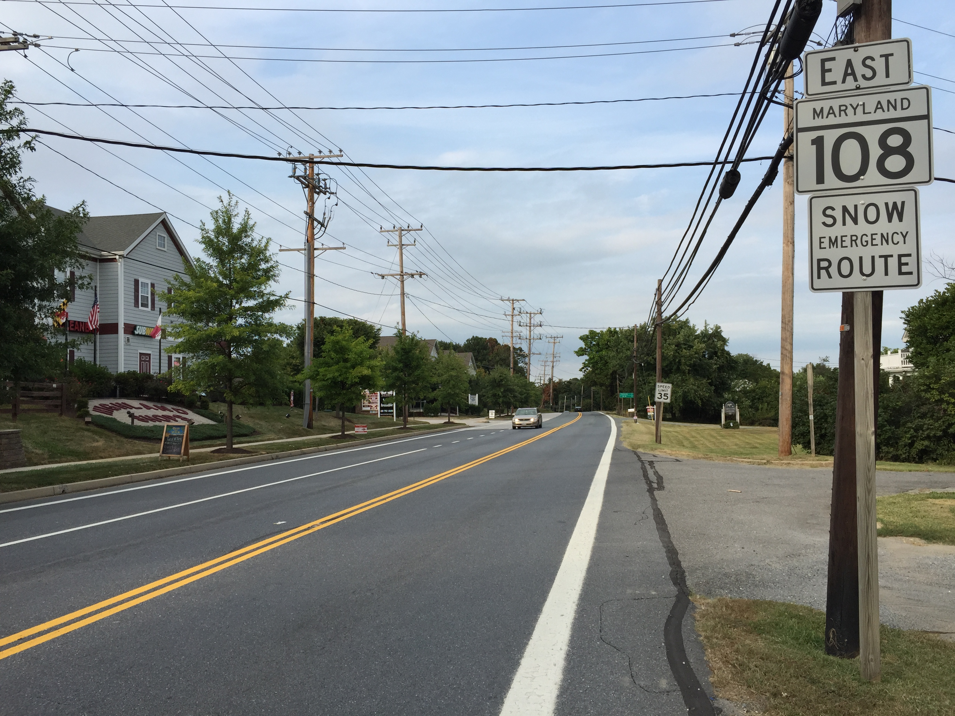 View east along Maryland State Route 108 (Clarksville Pike) at Maryland State Route 216 (Scaggsville Road) in Highland, Howard County, Maryland